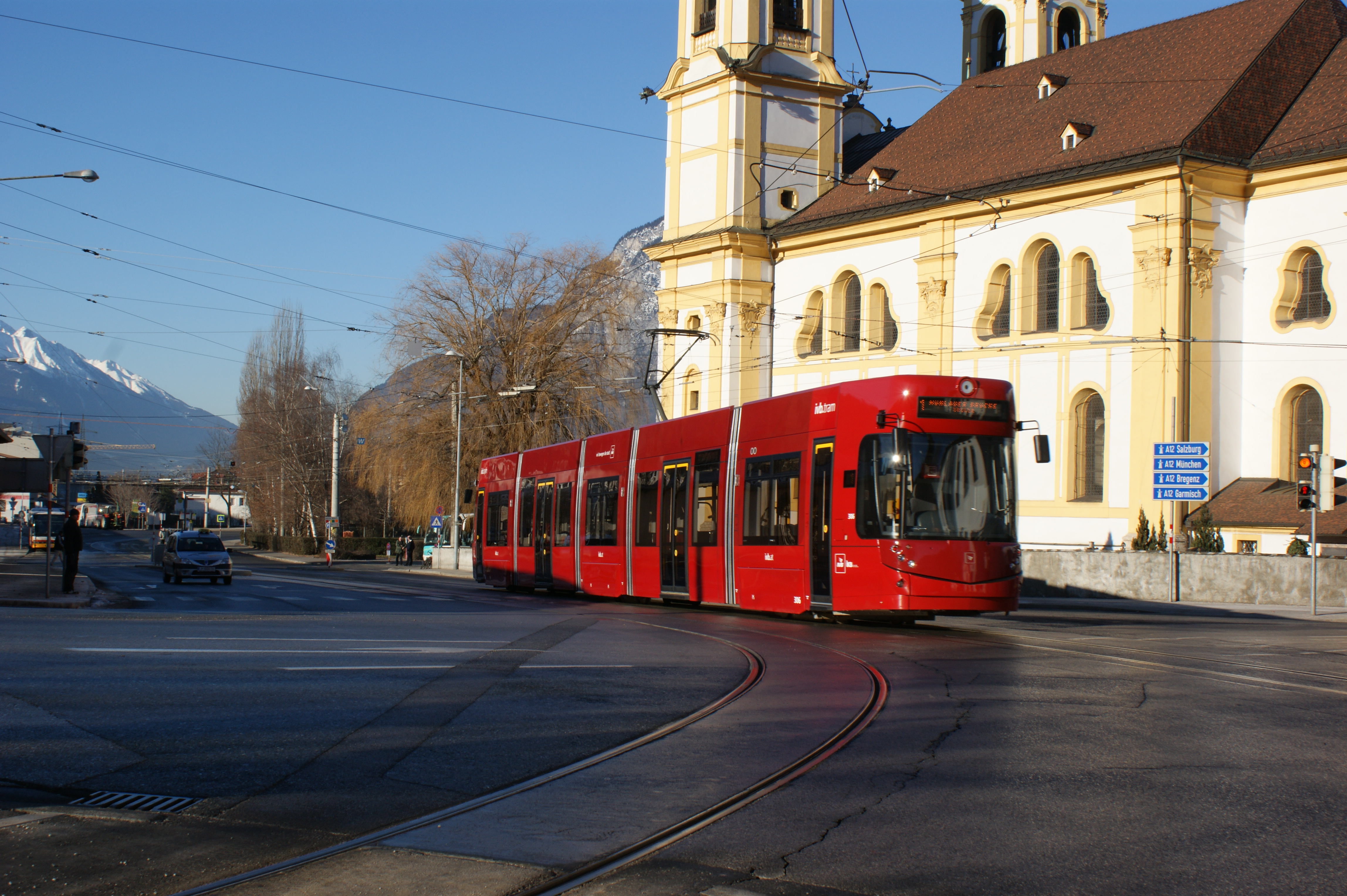 Motorcar 306 of the Tramway Innbsbruck